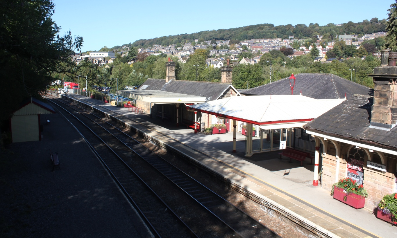 The railway station at Matlock. The platform on the right is used by trains towards Derby; the platform on the left used to be for trains to Manchester but is now just used for heritage services operated by Peak Rail as far as Rowsley.